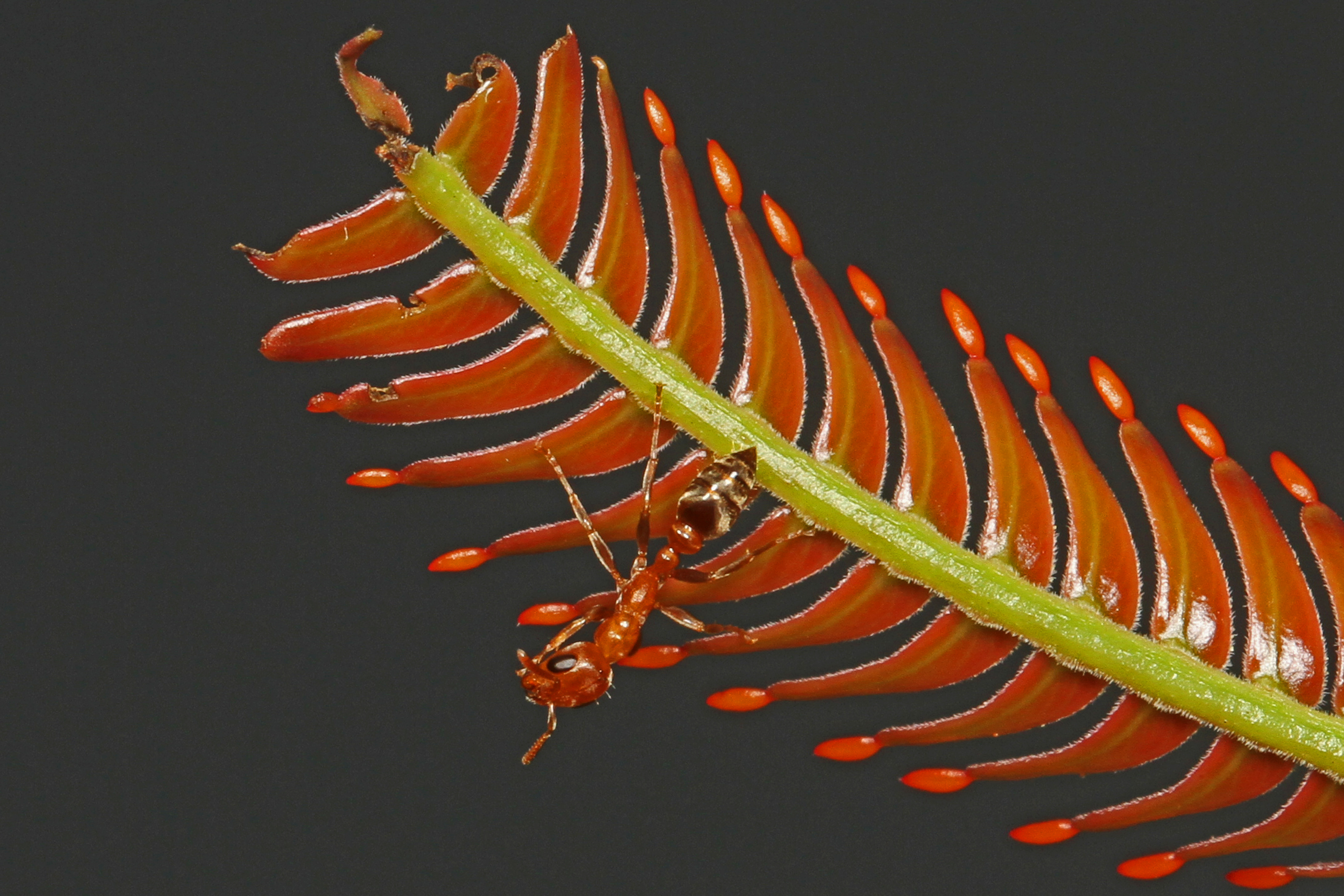 Ant - Pseudomyrmex species, on Bull Thorn Acacia (Acacia cornigera) with Beltian bodies, Caves Branch Jungle Lodge, Belmopan, Belize. Unlike other acacias, Bullhorn acacias don't have bitter alkaloids to defend the tree from predation by insects. Pseudomyrmex ants live in the hollowed-out thorns, and attack anything that tries to eat the leaves of the tree. One bit me when I took this series of photographs. It felt like a wasp sting - painful, but not long-lasting. The acacia's Beltian bodies (the little lumps on the ends of the leaves in this picture) provide protein for the ants.